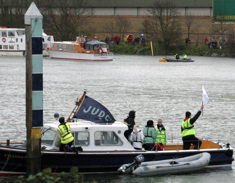 2008 Finish seen from Chiswick Bridge. Category:Images of the Boat Race